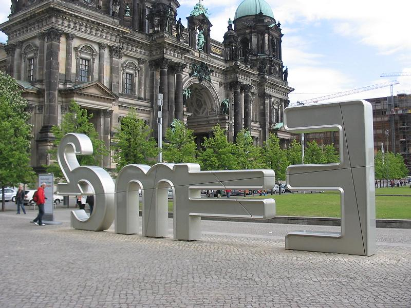 „Relativity“, sixth und last sculpture of the Berliner Walk of Ideas on the occasion of 2006 FIFA World Cup Germany. Unveiling: 19 May 2006 in Lustgarten. Back side of the sculpture with Berliner Dom in the background.